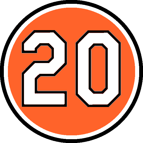 Recreation of how it looks at Camden Yards